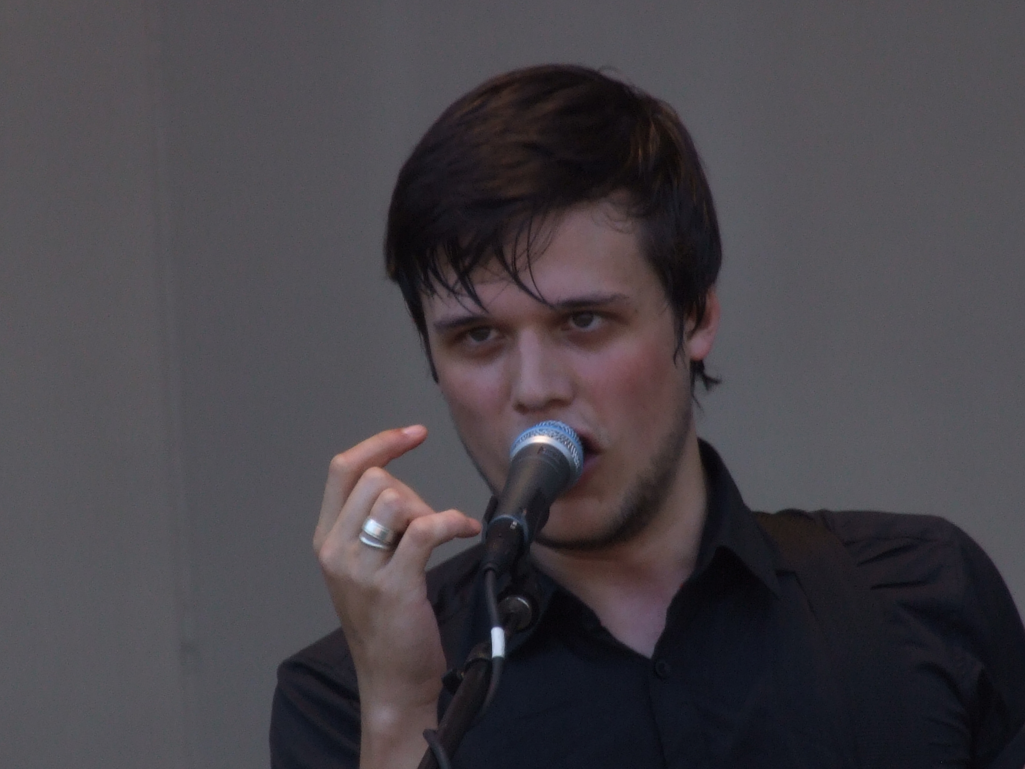 Leadsinger Harry McVeigh of the White Lies